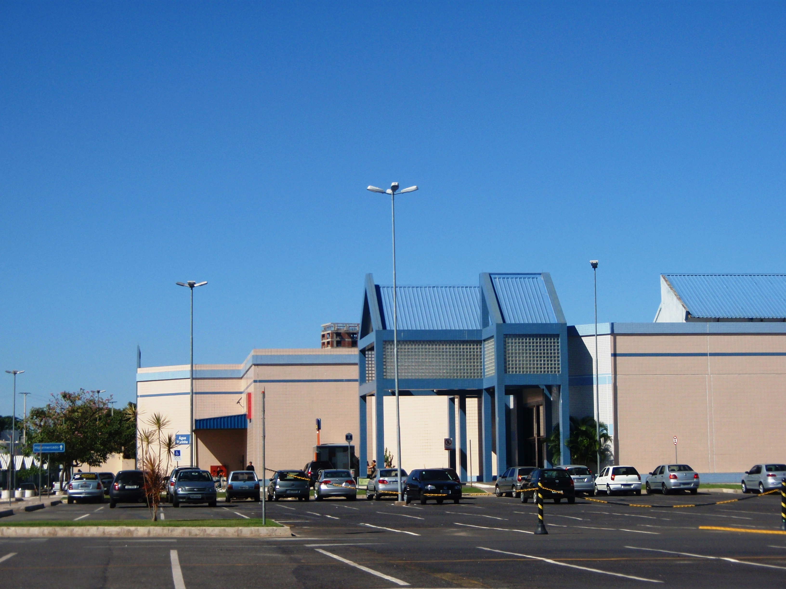 GV Shopping, in Governador Valadares, Minas Gerais, Brazil.